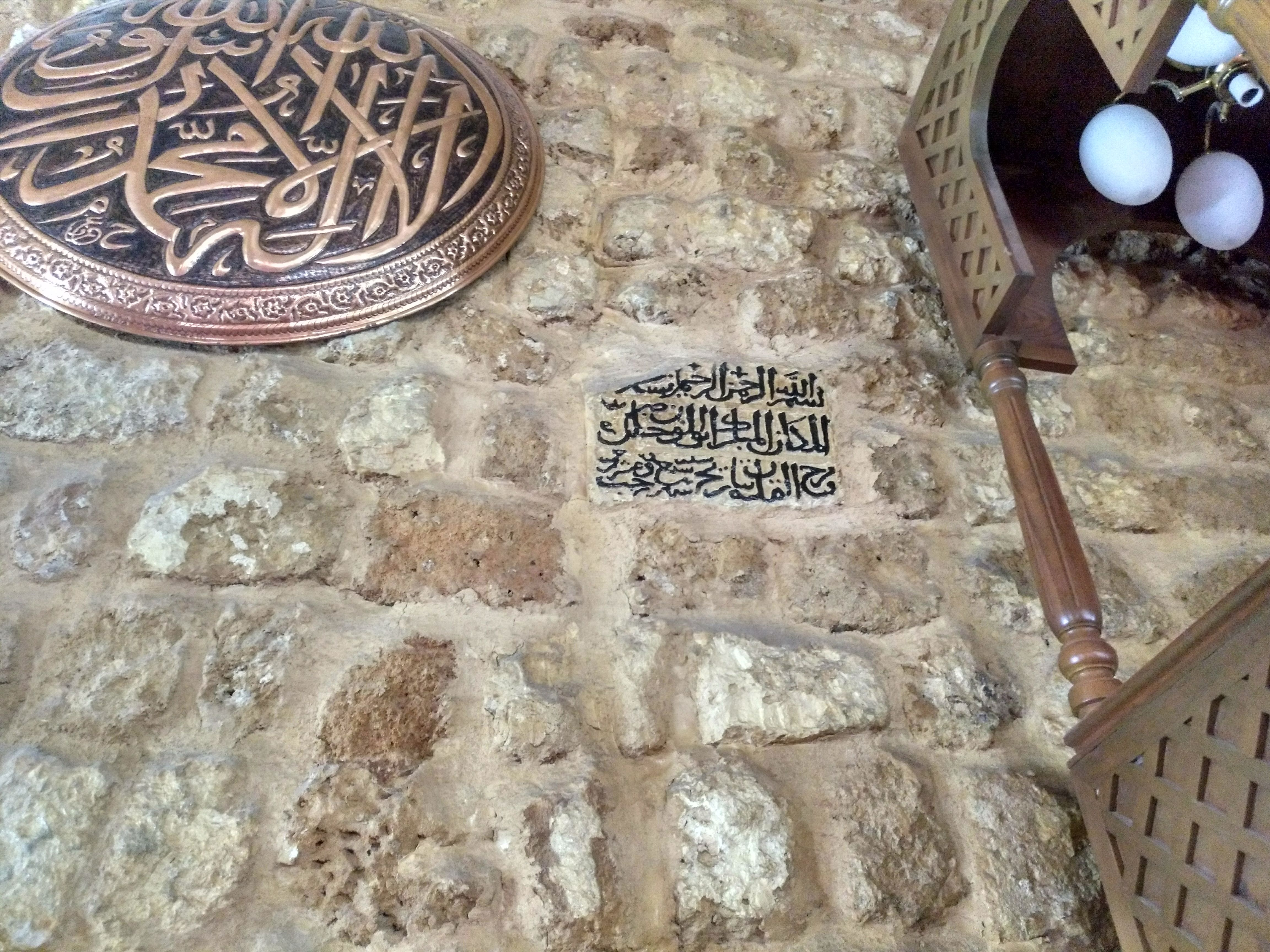 Inscription on the main wall of the Jami` al-bahri in Al-Qalamoun, Lebanon, to the left of the minbar